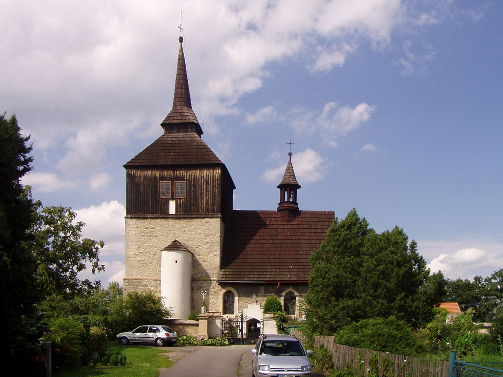 St Lawrence church in village of Březina, Mladá Boleslav District, Czech Republic.